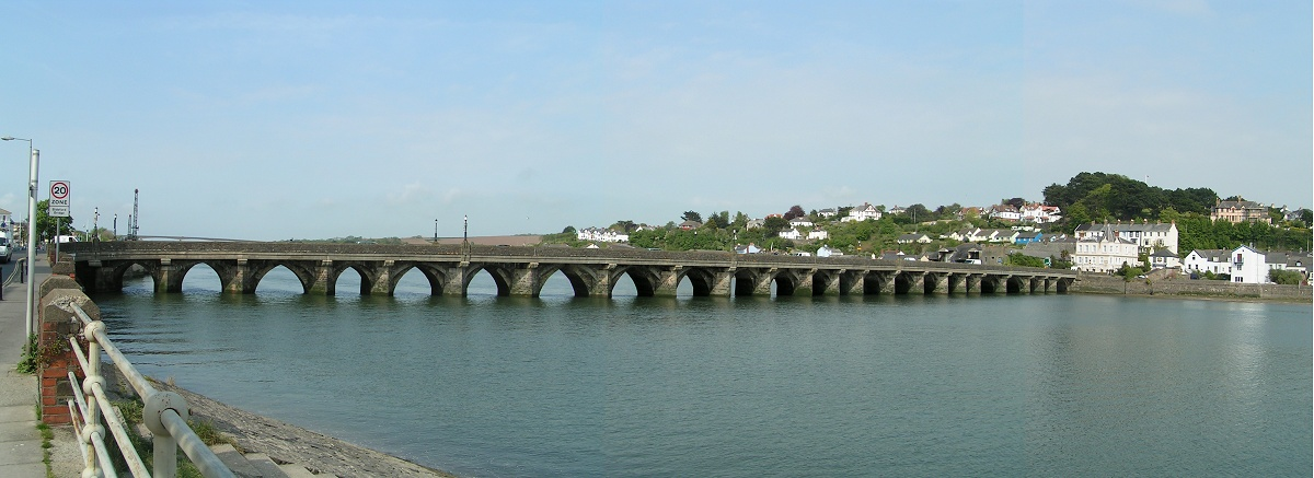 Bideford long bridge. Photo by sannse, 14 May 2004. A composite of three photos.